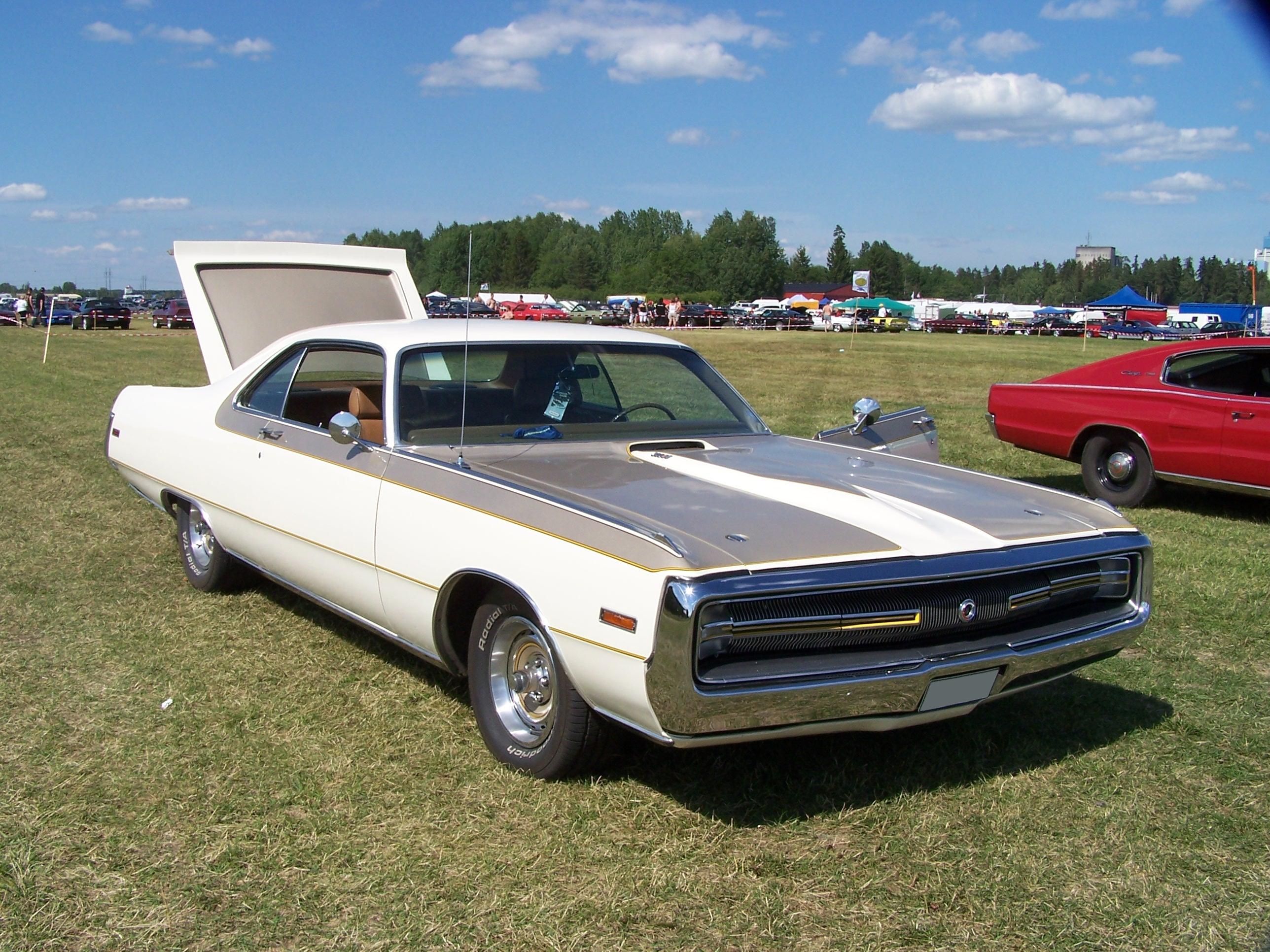 1970 Chrysler 300 Hurst at Power Big Meet 2008, Västerås, Sweden.